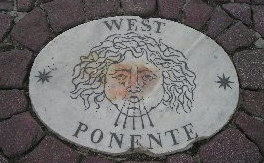 West Ponente, Cardinal direction at the Saint Peter's Square